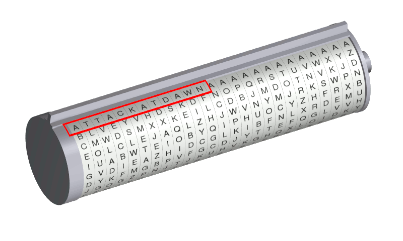 Rendering of a wheel cipher, based on the M-94. Created by Wapcaplet in Blender.